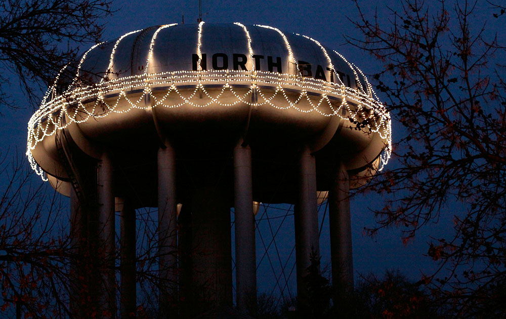 North Battleford, Saskatchewan, water tower. 100420-083